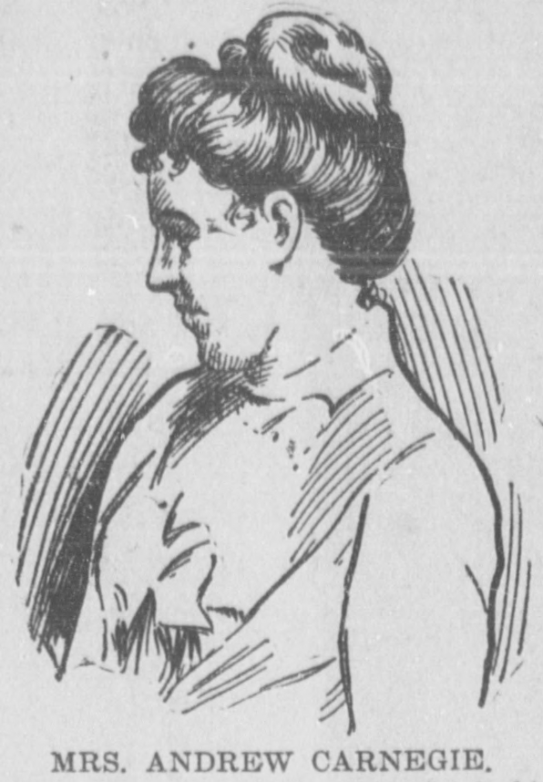 Louise Whitfield Carnegie. Note that the Red River Prospector referred to her solely by her husband's name.